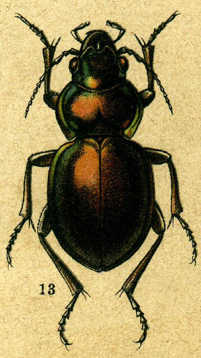 Adult Beetle Illustration from the monograph by Georgiy Jacobson “Beetles Russia and the Western Europe” (1905).